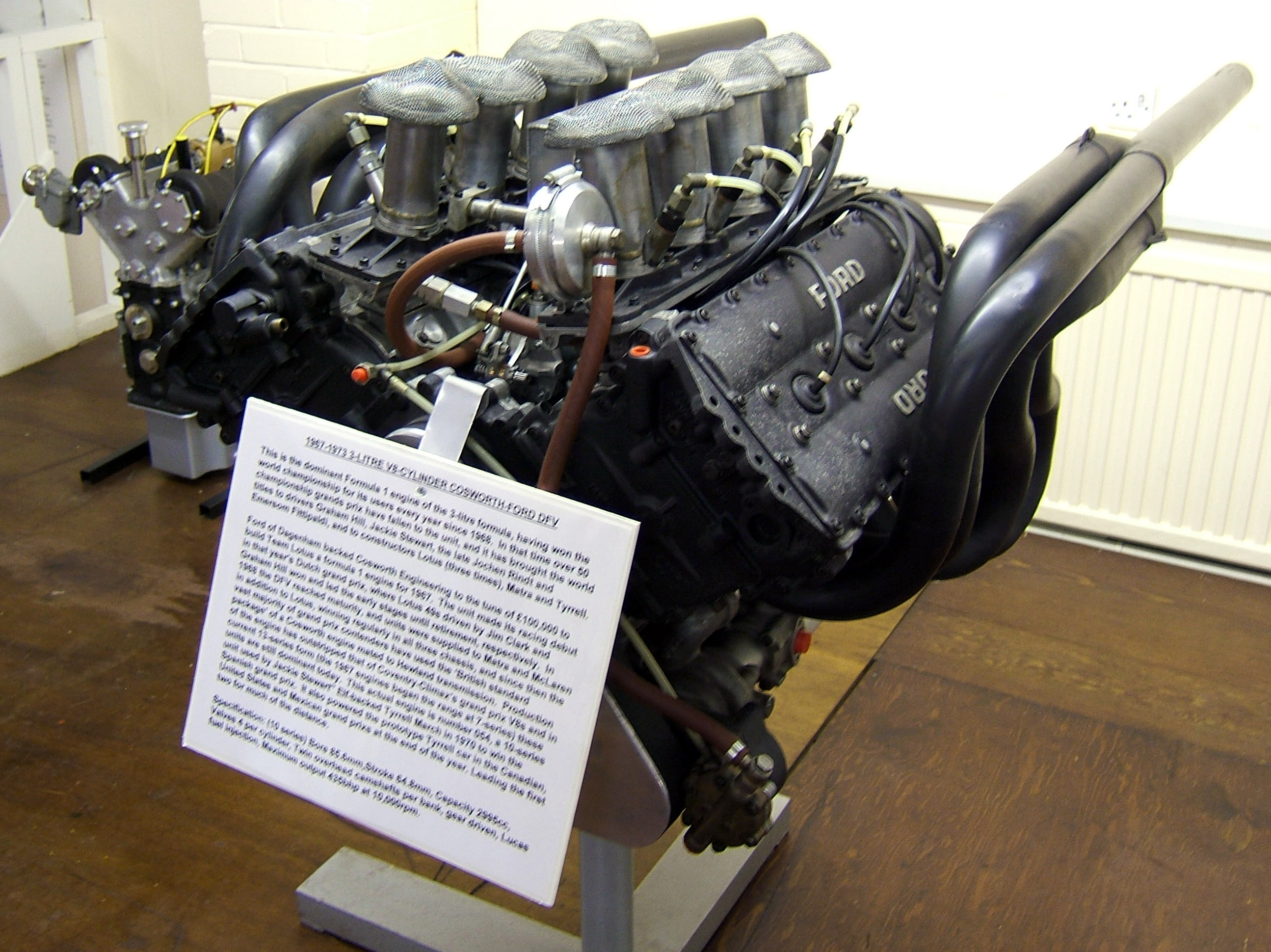 A Cosworth DFV 2998cc V8 Formula One engine. With a rather elderly description! In the Donington Grand Prix Collection museum, Leics., UK.